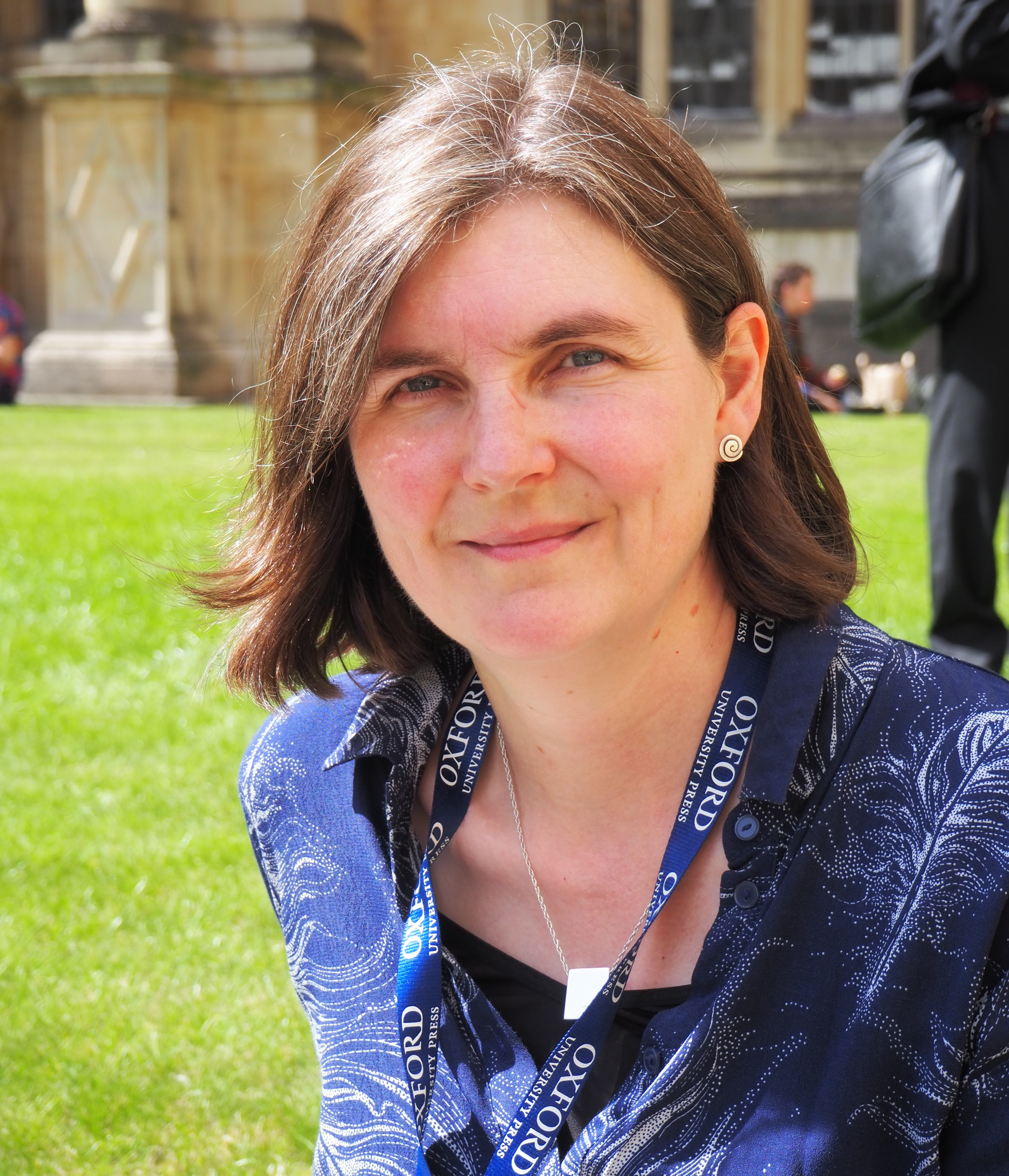 Morwenna Ludlow at the Oxford Patristics conference in August 2019